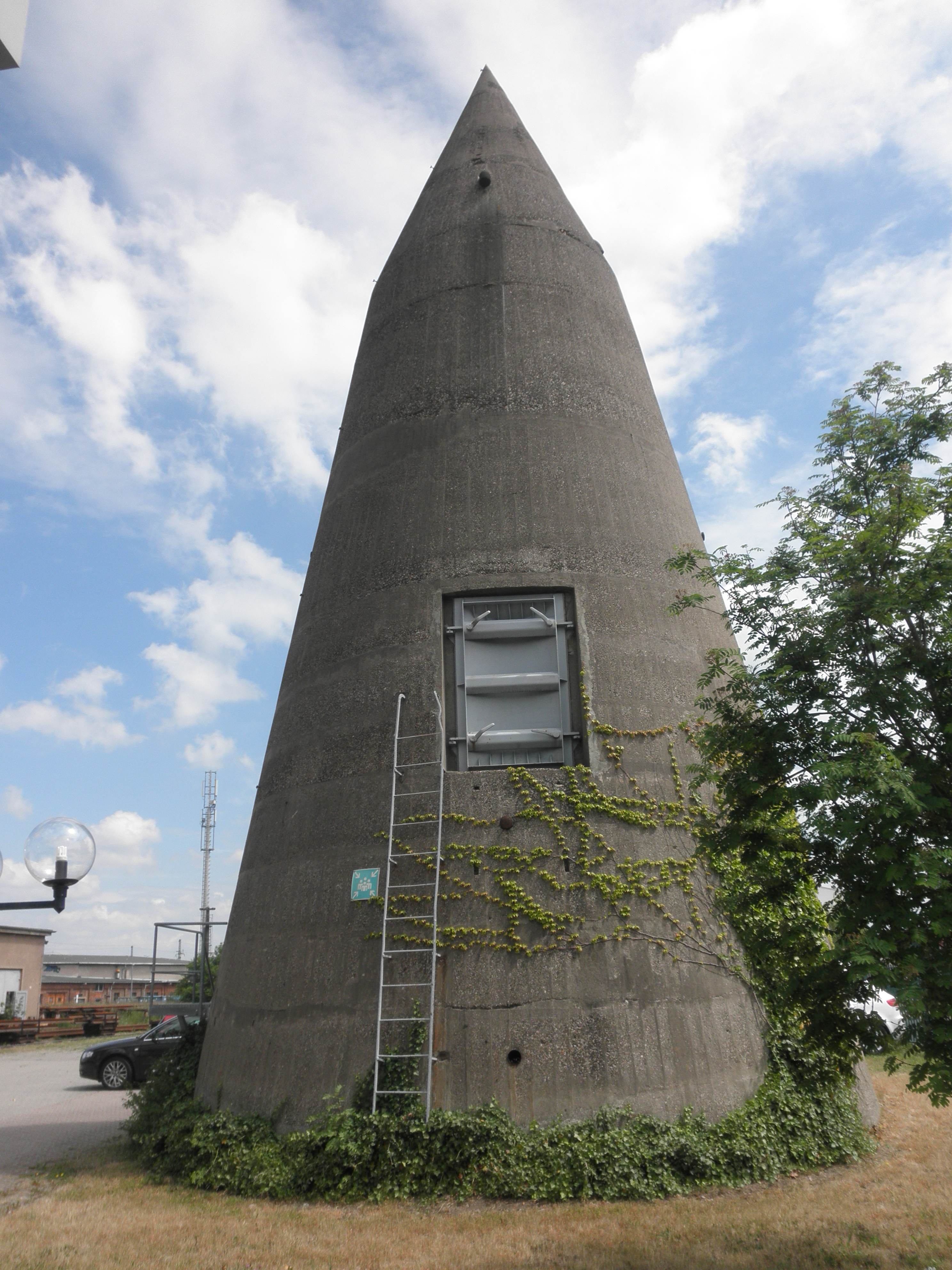 Air Raid Shelter in Gotha in Thuringia